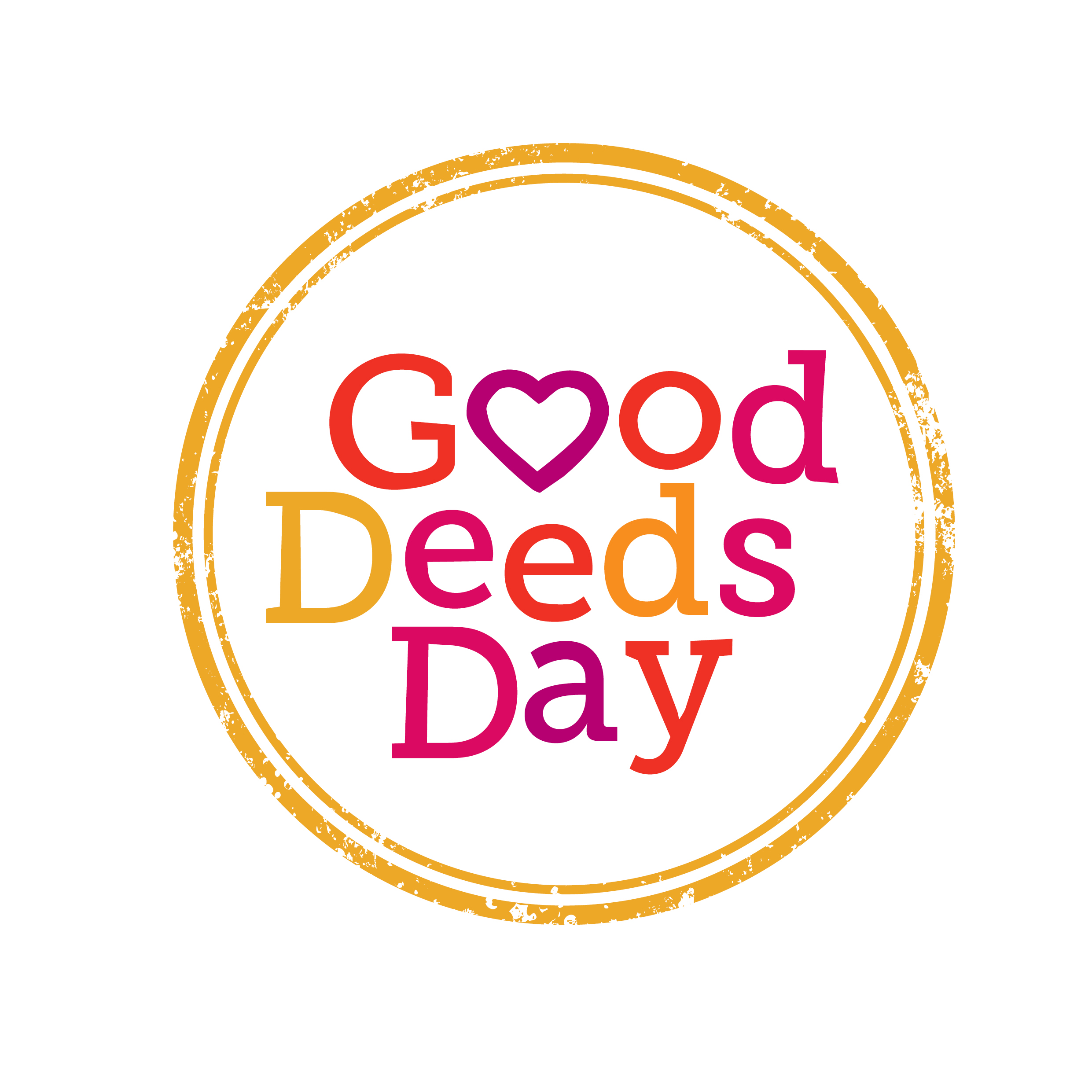 Good Deeds Day official logo in english